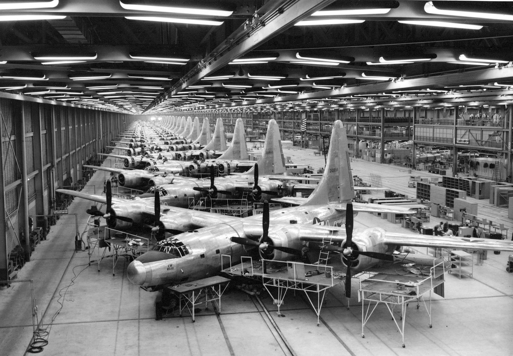 TB-32 production line at Consolidated Aircraft, circa 1944-45